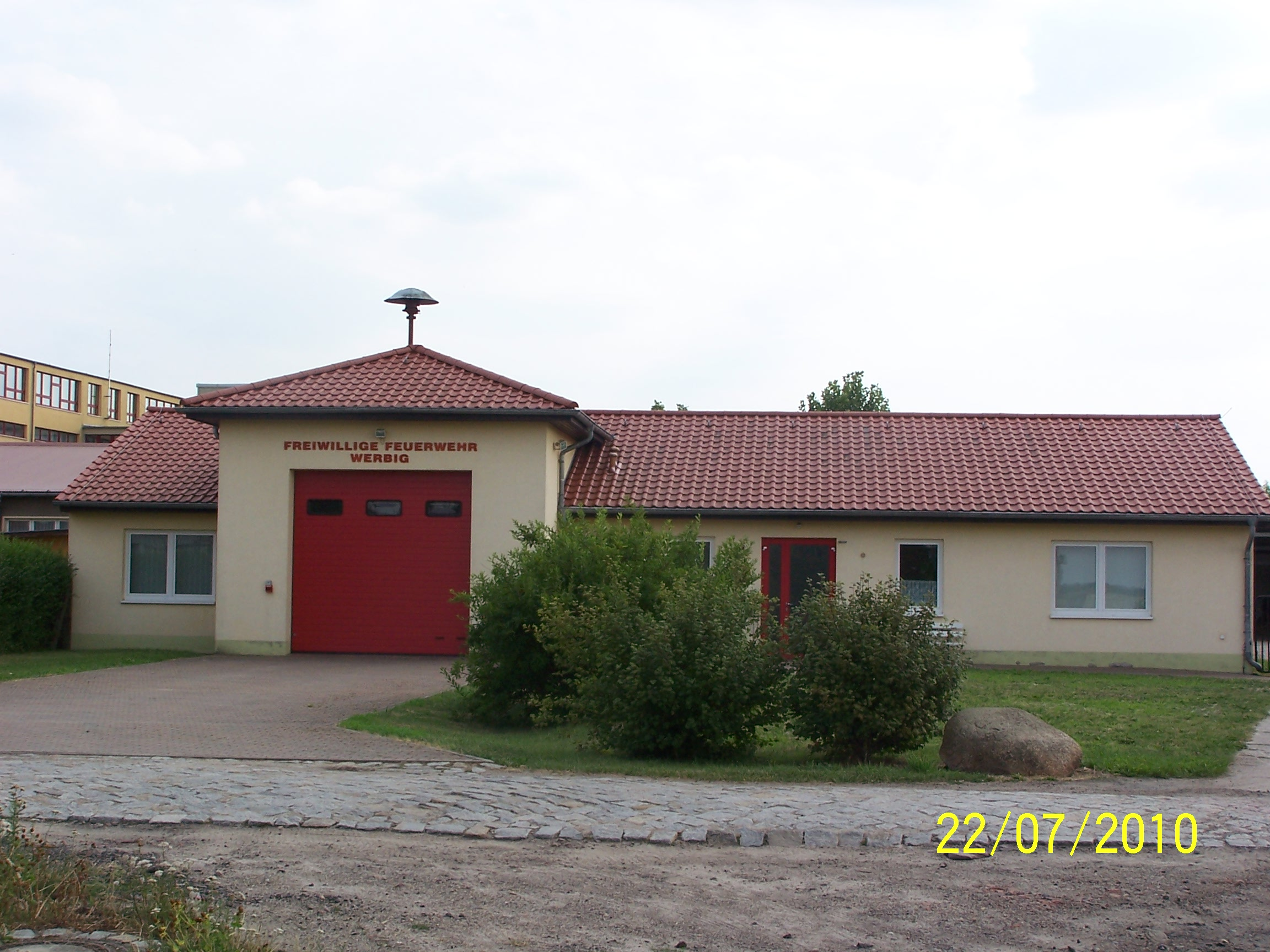 Building of the Fire brigade of Werbig